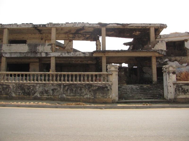 Ruined house of Jonas Malheiro Savimbi (August 3, 1934 – February 22, 2002) in Huambo, Angola, destroyed in 2002